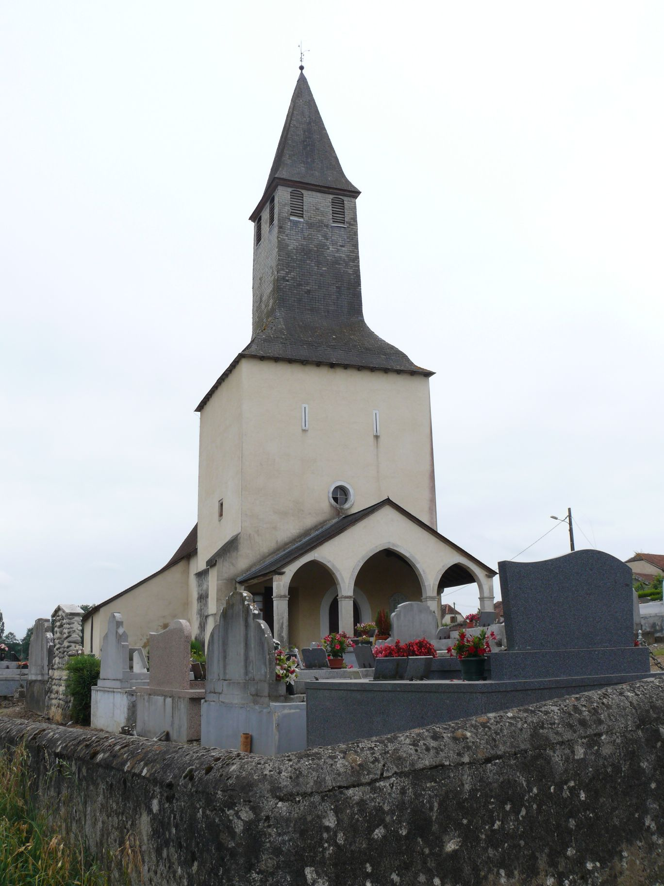 Sainte-Quitterie's church in Uzan (Pyrénées-Atlantiques, France).